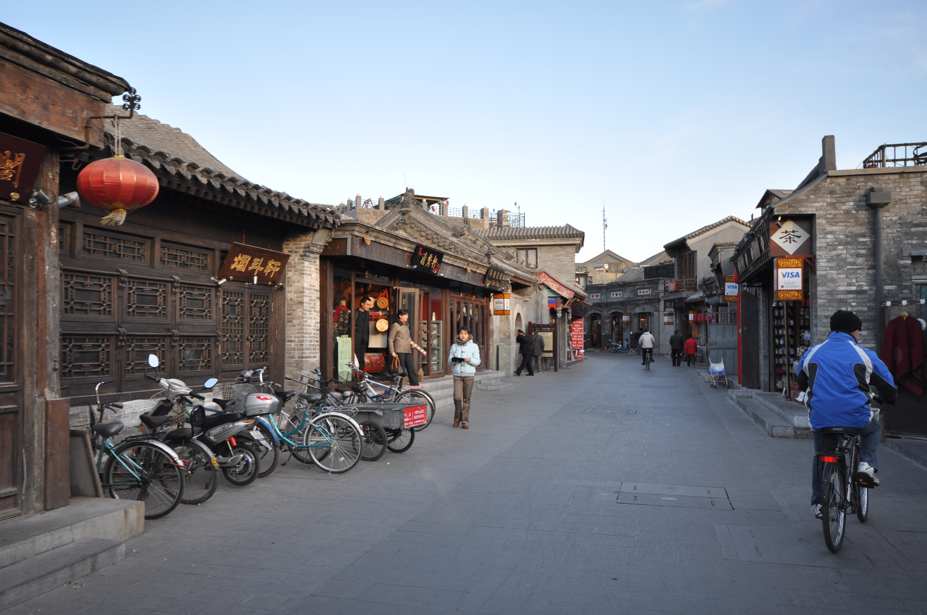 A Beijing hutong street.